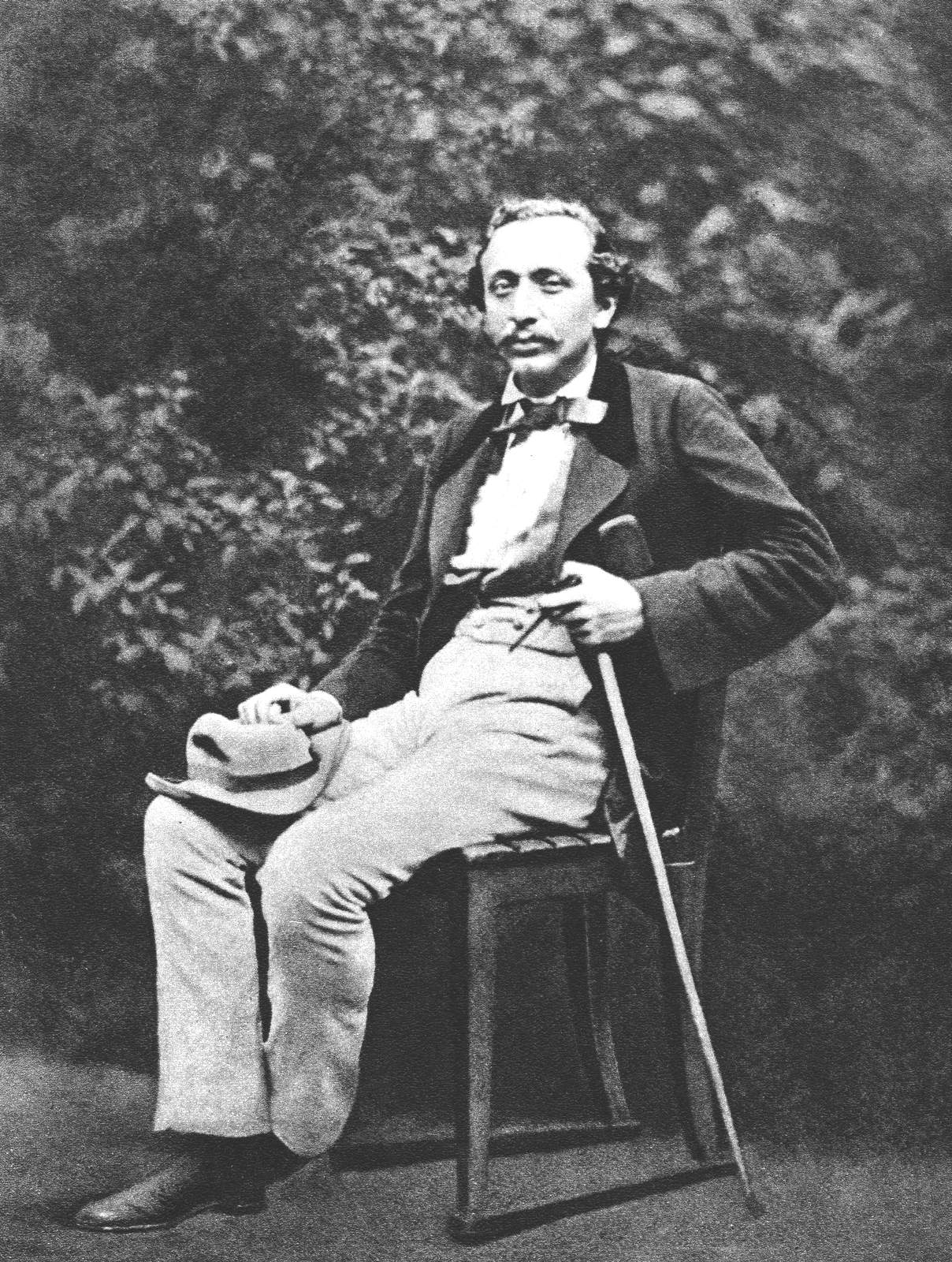 Jan Neruda